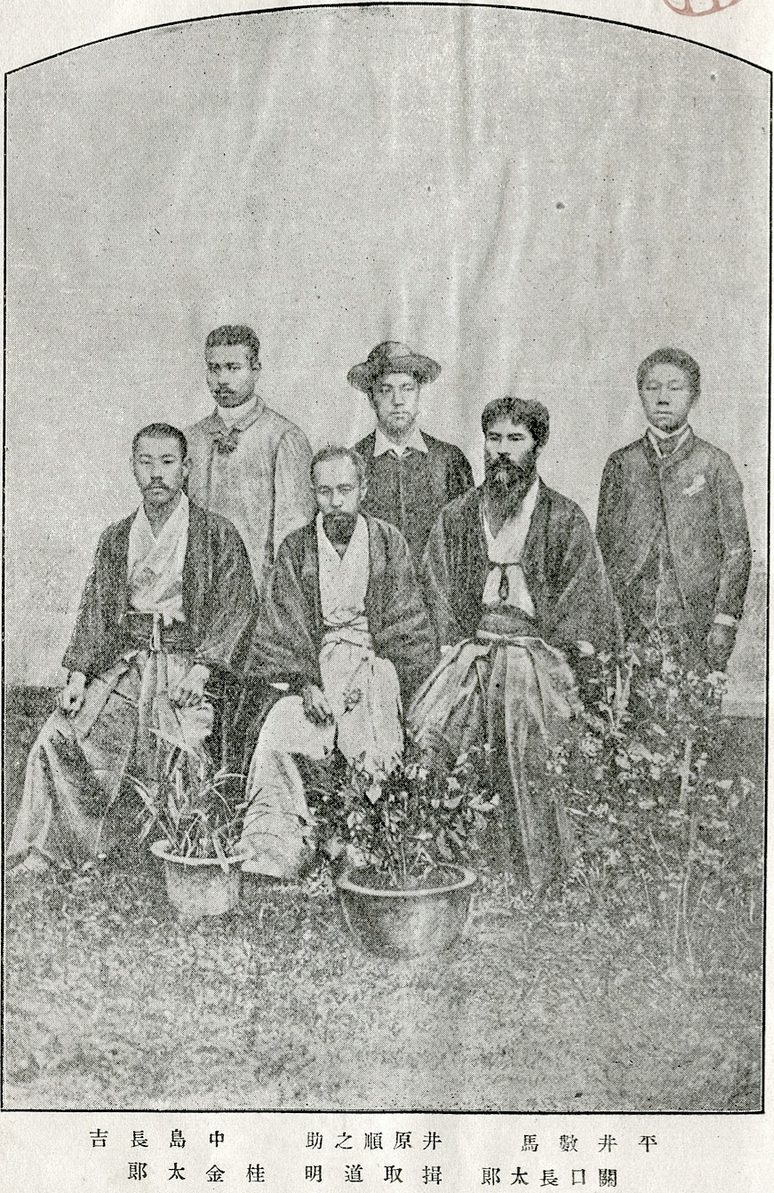 Rokushi-sensei 六氏先生